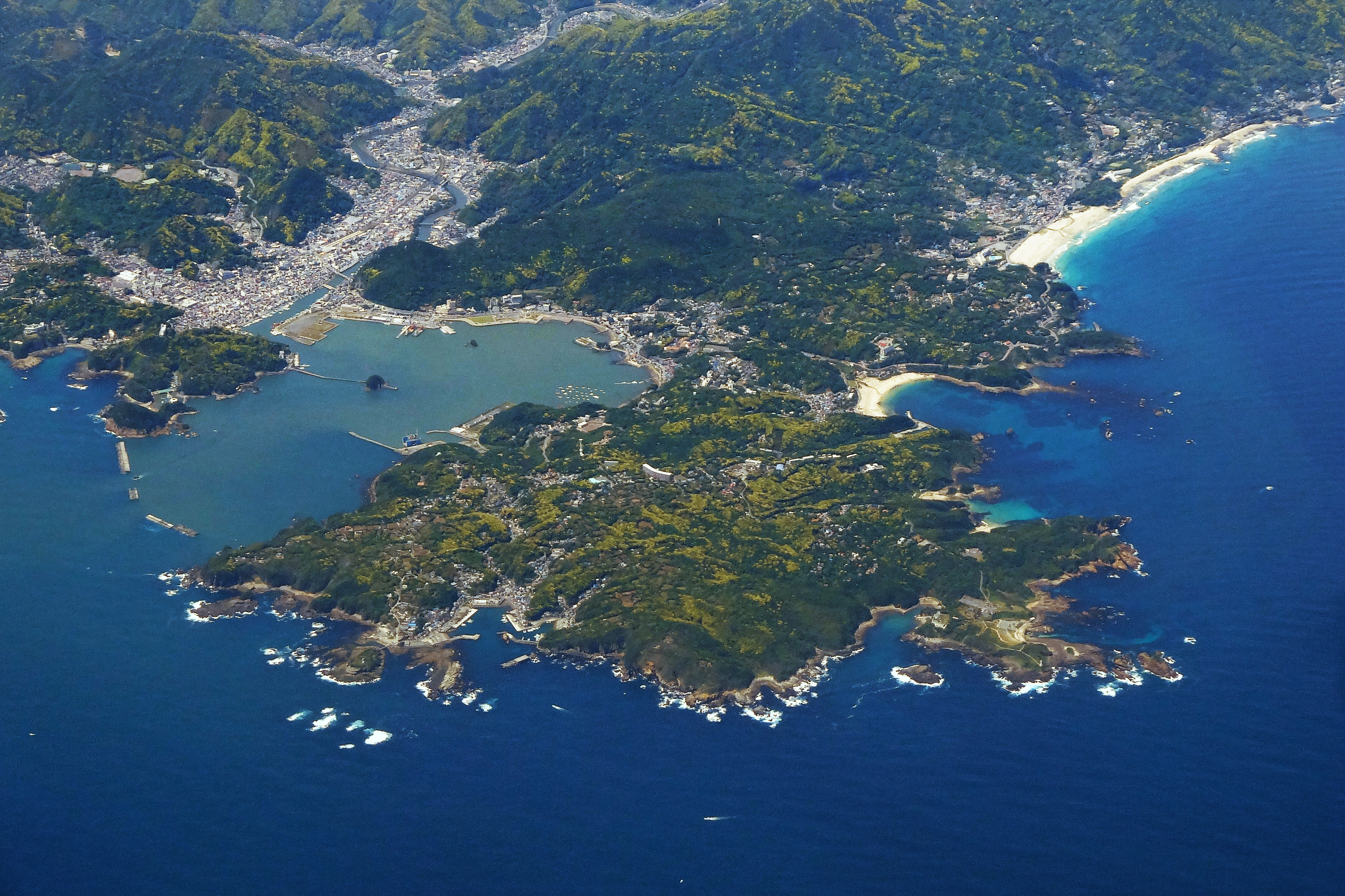 Shimoda Port from the sky in Shimoda City, Shizuoka prefecture, Japan.